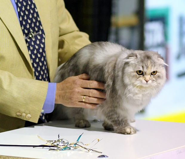 The Scottish Fold Longhair, a.k.a. Longhair Fold or Highland Fold.